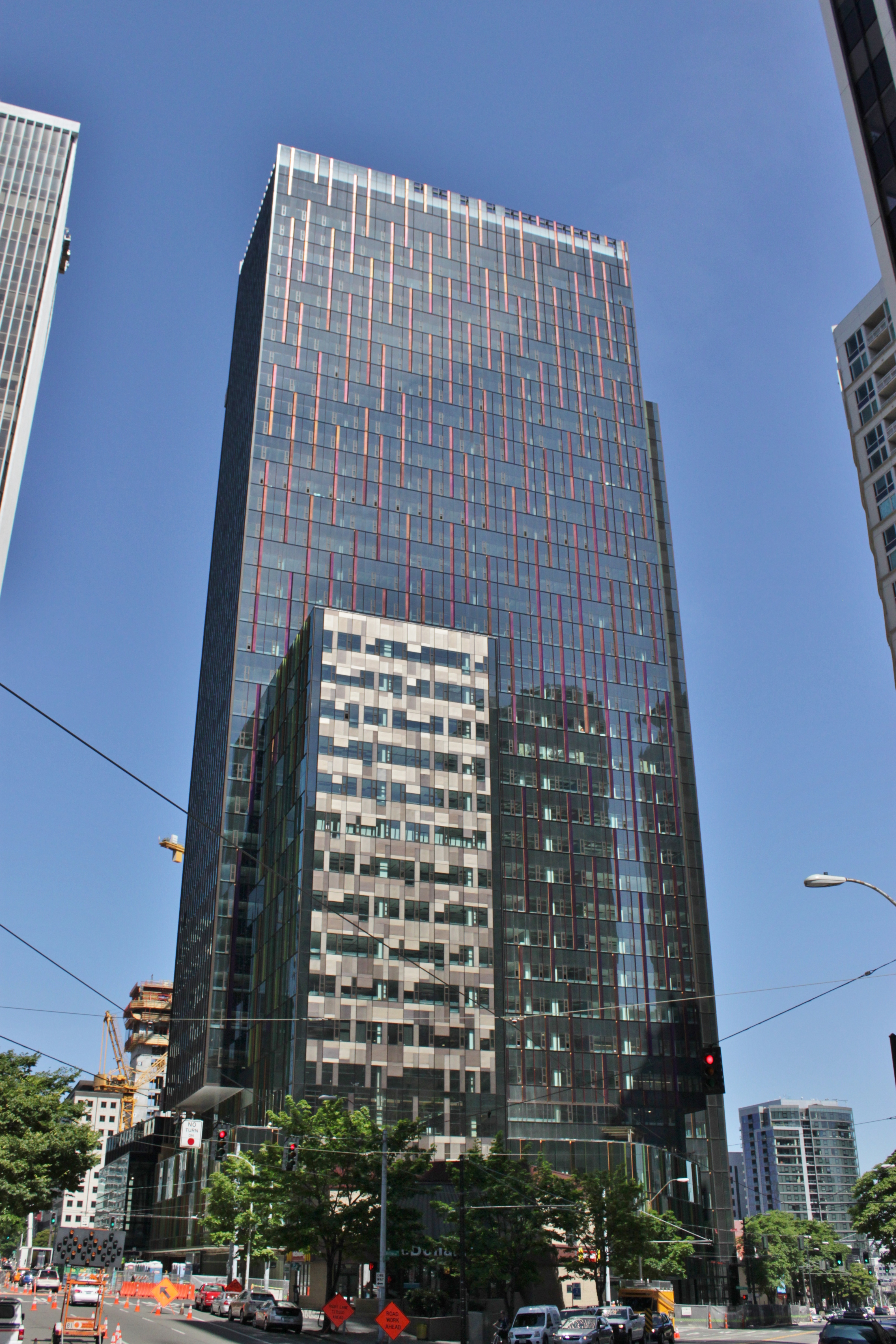 Amazon Tower I, a 37-story office building in Seattle, Washington built for , being topped out in 2015.